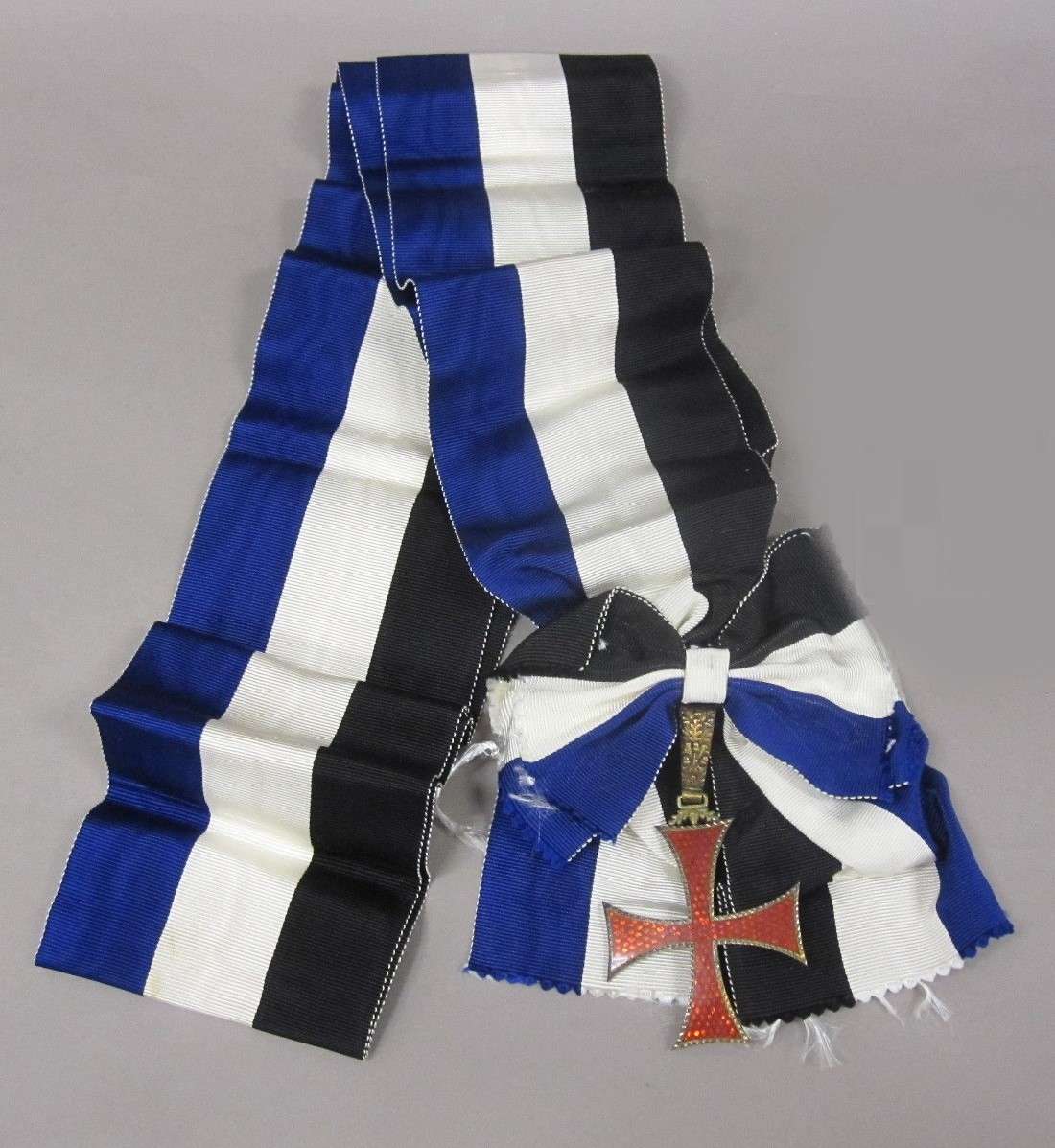 Grand Cross of the Order of Prince Henry (Portugal)